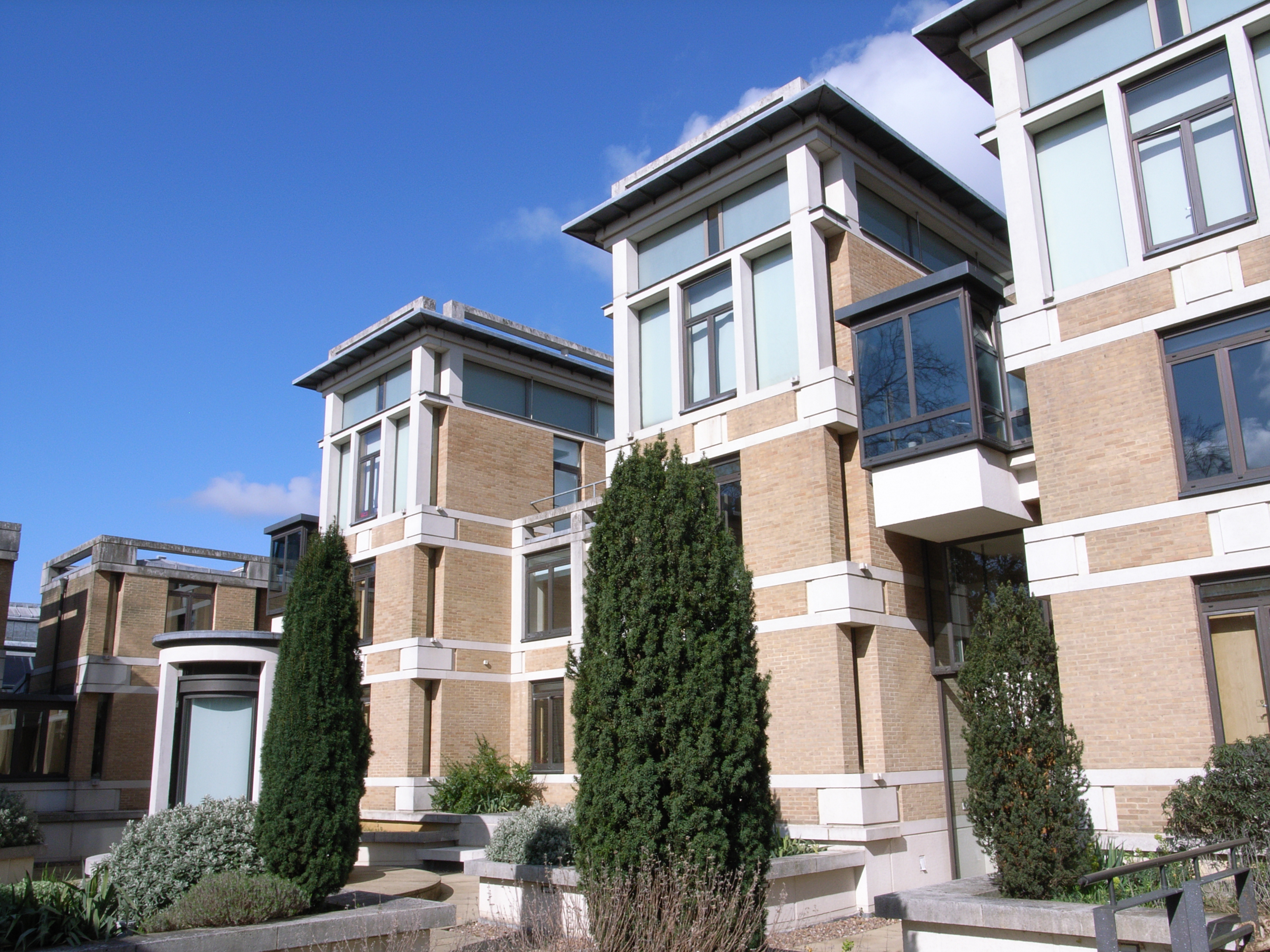 The Garden Quadrangle (1989-93) by MacCormac, Jamieson and Pritchard, St John's College Oxford. Photo taken on a tour of post-war buildings in Oxford with the 20th Century Society.